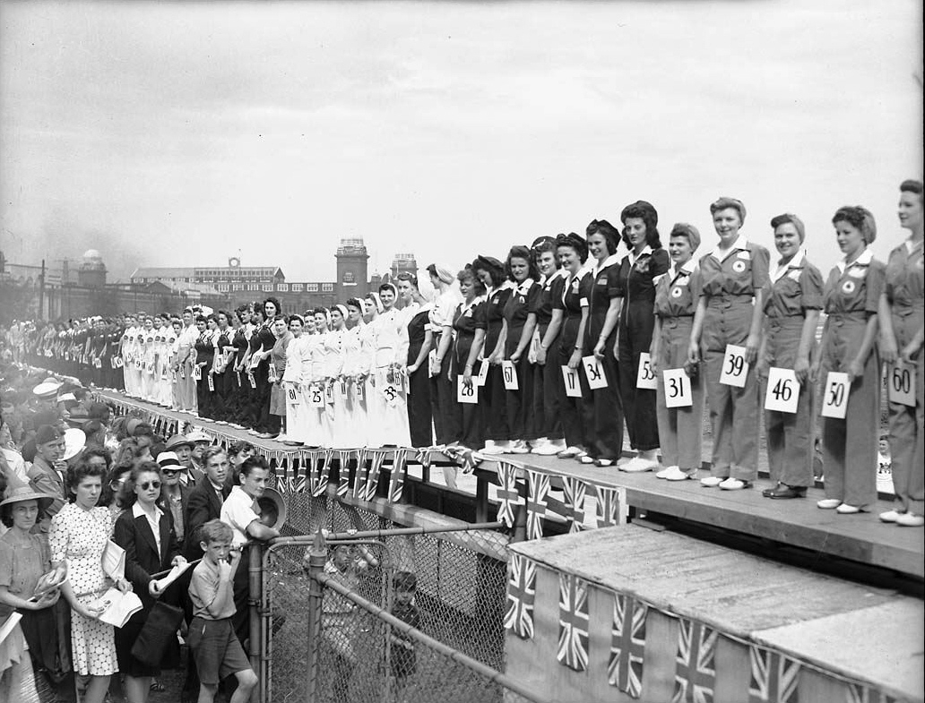 Miss War Worker Beauty Contest 1942, Canadian National Exhibition Grandstand : contestants are grouped by employer. Toronto, Canada.